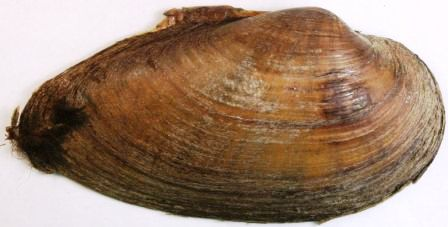 Shell of Unio tumidus from the Netherlands